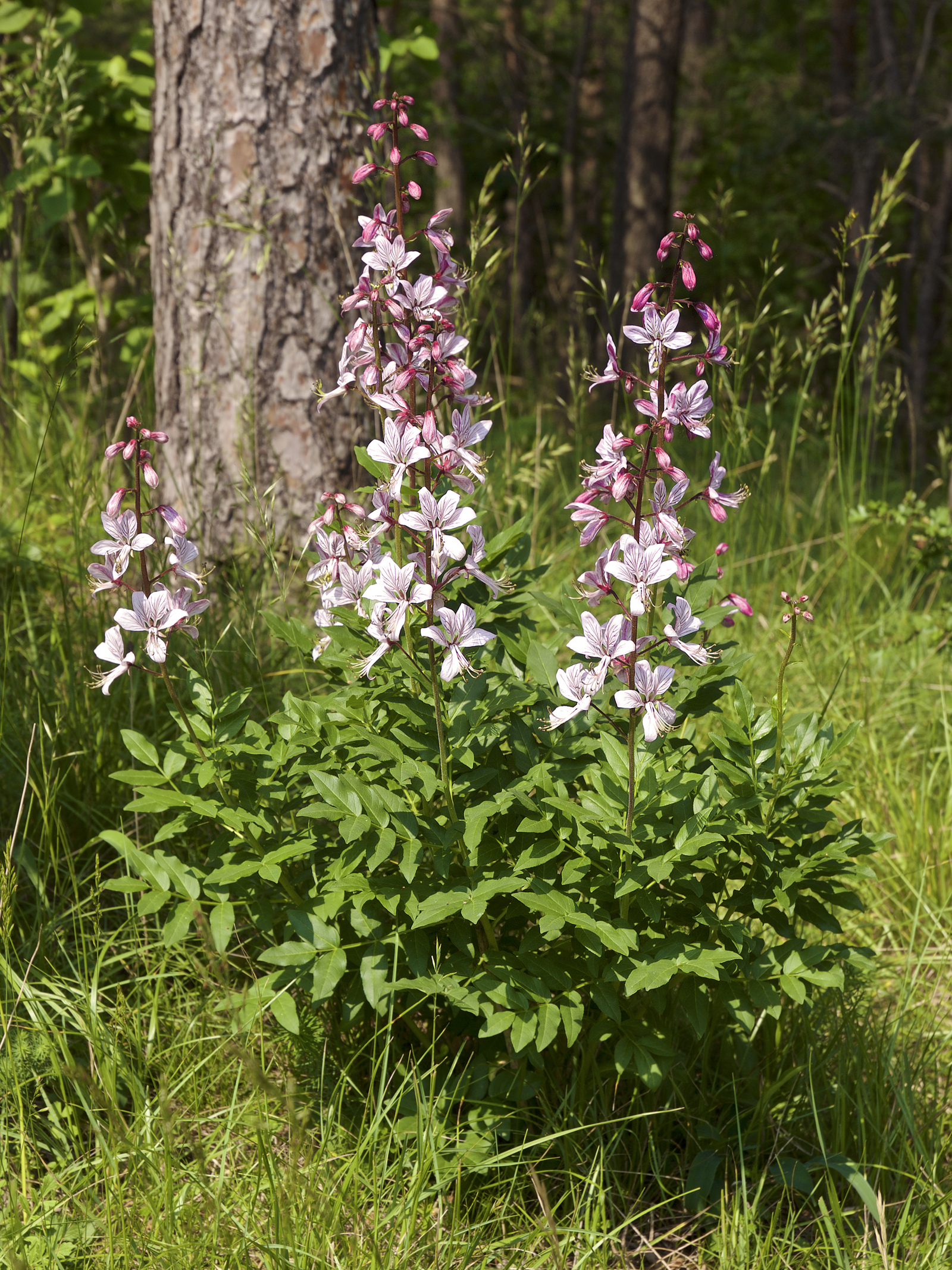 White Dittany (Dictamnus albus), Leutra, Germany